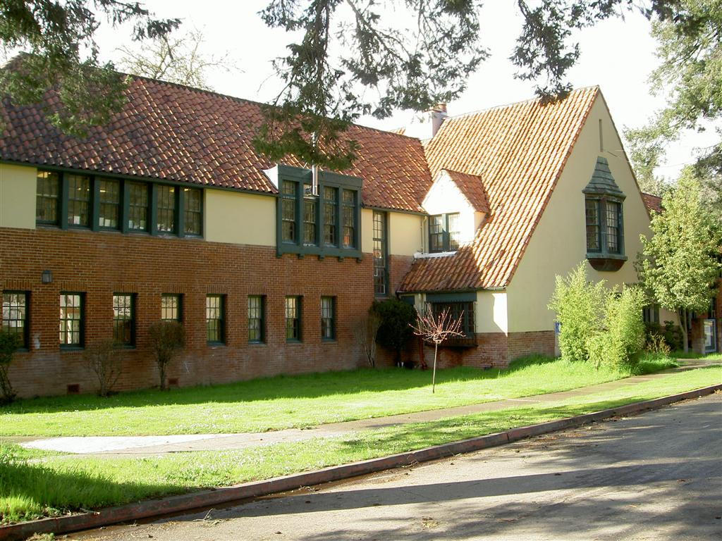 Developing Virtue Secondary School's Boys Division, in the City of Ten Thousand Buddhas.